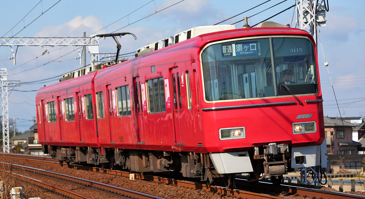 Meitetsu 3100 series EMU ( 3115F between Kisogawazutsumi Stn. and Kuroda Stn. )